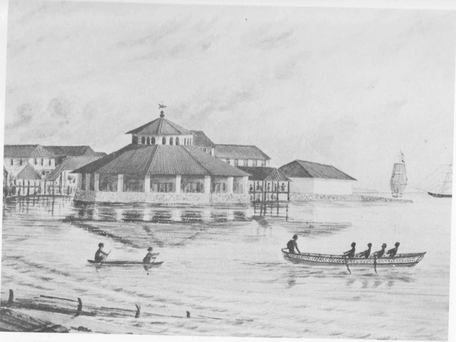 19th century Telok Ayer Market on Telok Ayer Bay, details of a painting by John Turnbull Thomson, 1847